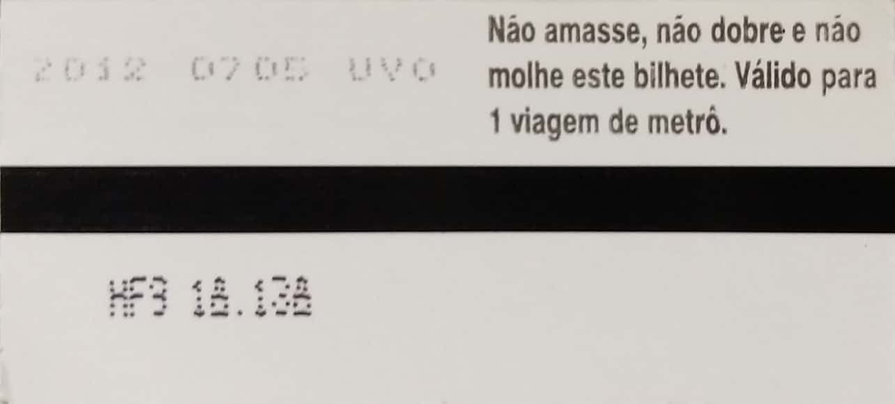 Bilhete usado do trem de Belo Horizonte (CBTU)